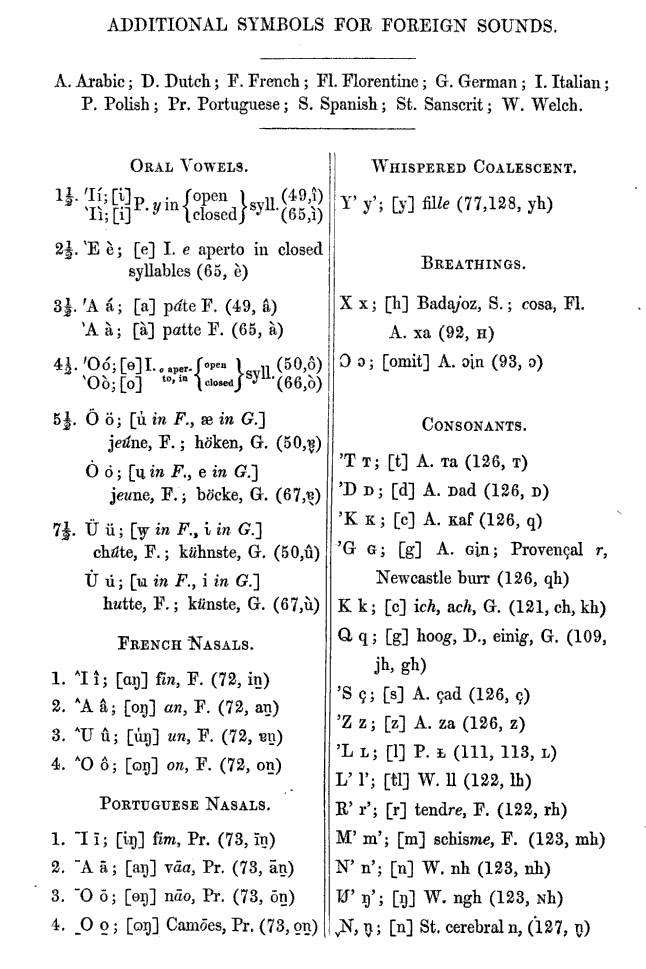 Chart of additional symbols of the English Phonotypic Alphabet for foreign sounds